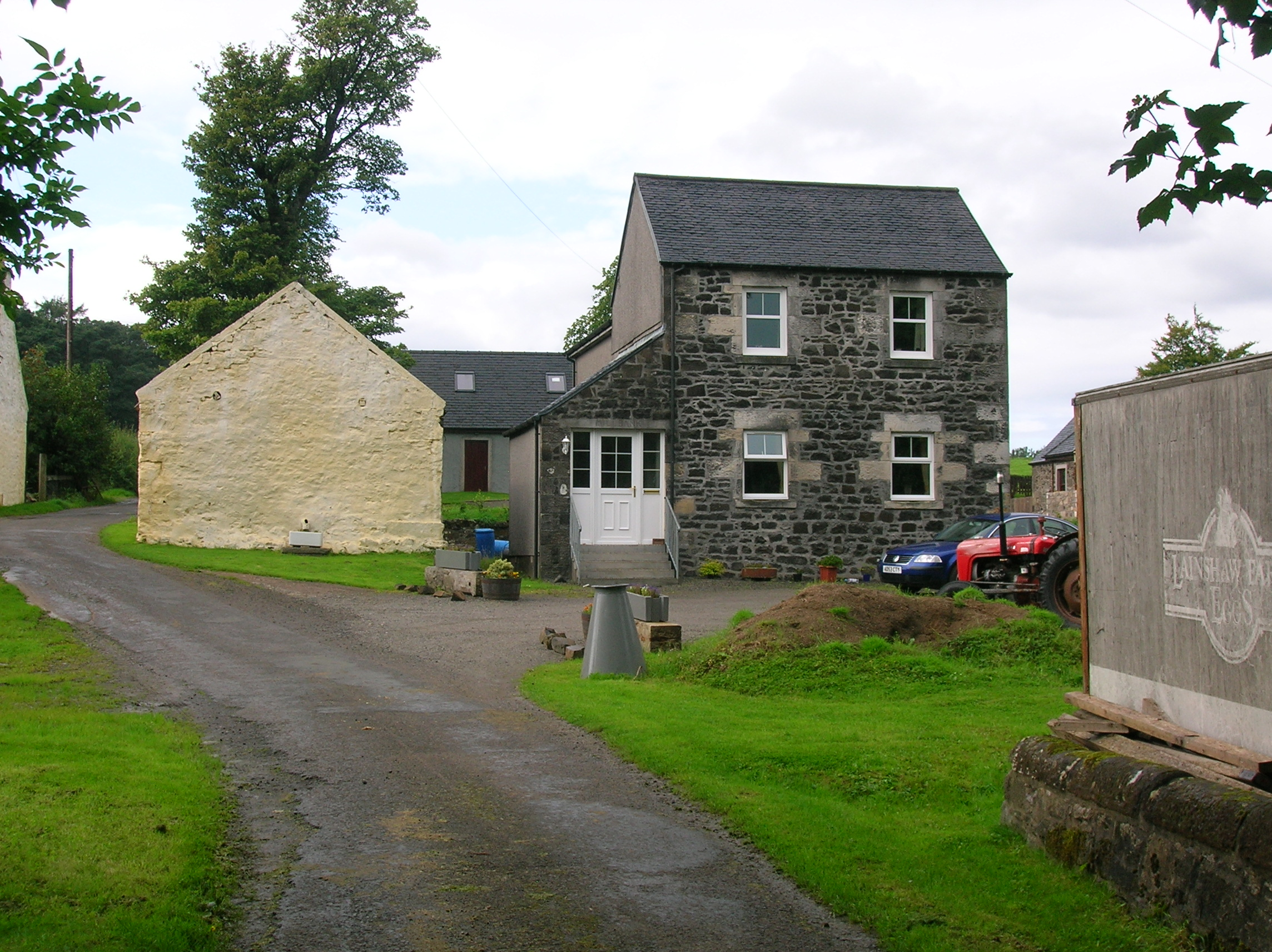 Hessilhead Farm Town old school, Beith, Ayrshire, Scotland